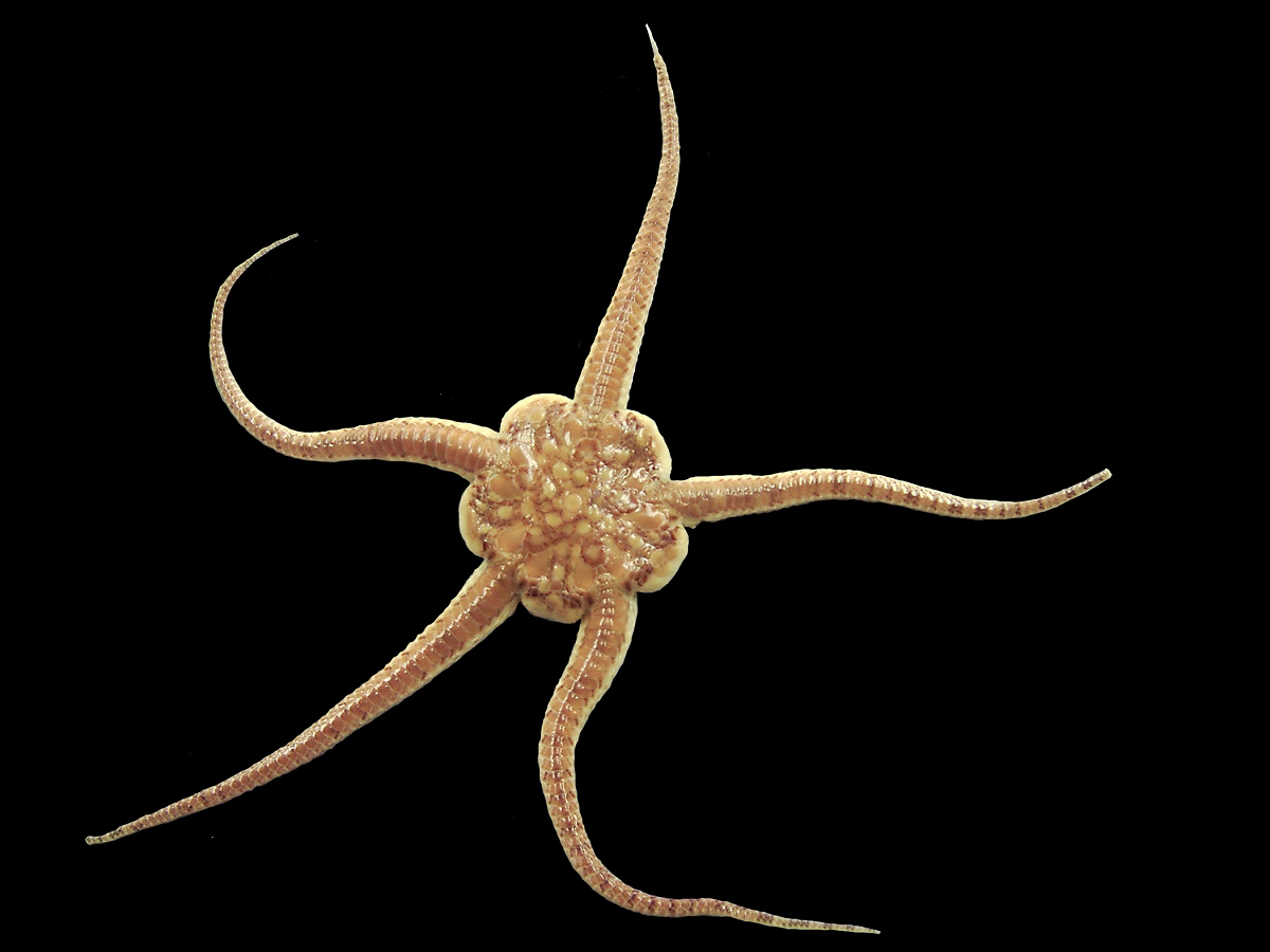 Common brittlestar (Ophiura ophiura). Taken on the R.V. Belgica, on sampling campaign St0504 on the BCS.